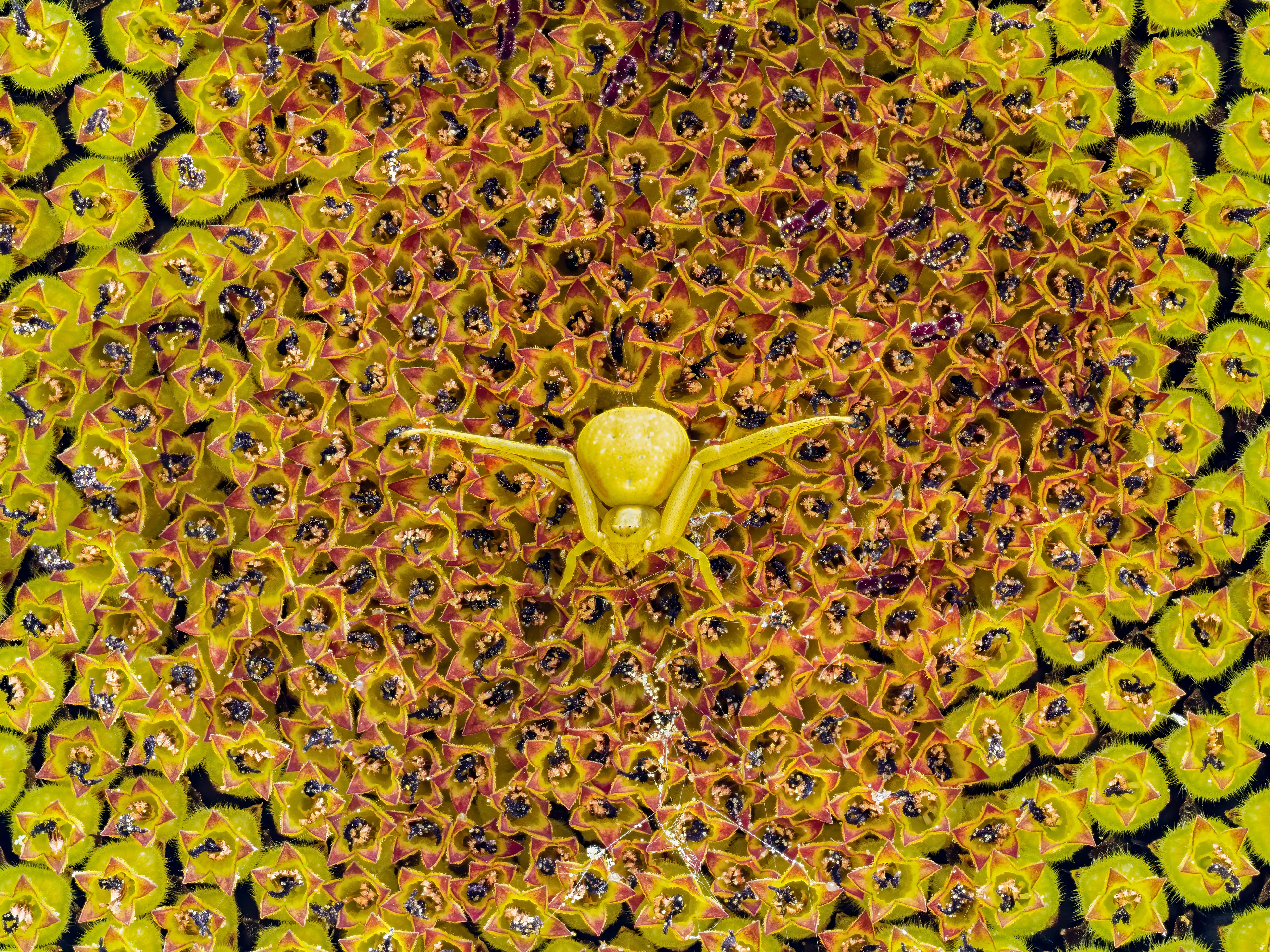 Crab spider (Misumena vatia) in the centre of a sunflower. Focus stack of 8 frames